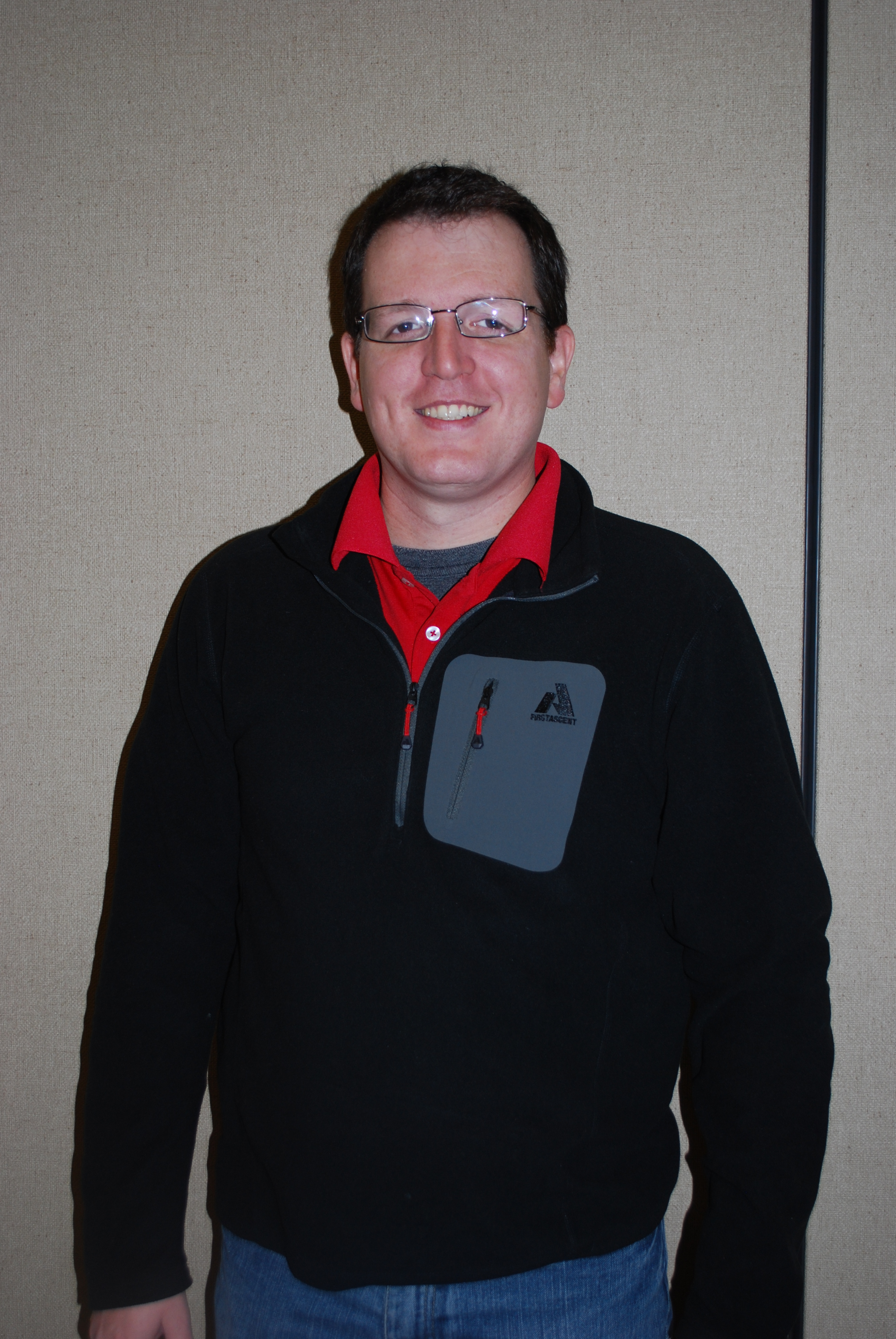 Justin Ready, a member of the Maryland House of Delegates, District 5A, at the Kasten for Sheriff Fundraiser in Sykesville, Maryland, USA.